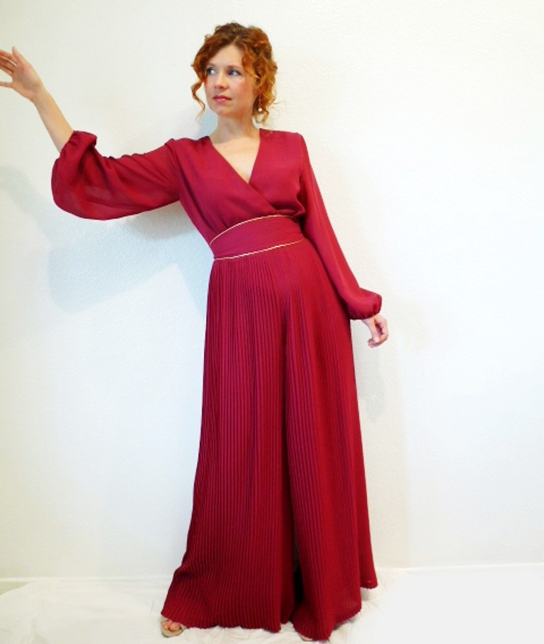 Miss Elliette Jumpsuit Dress